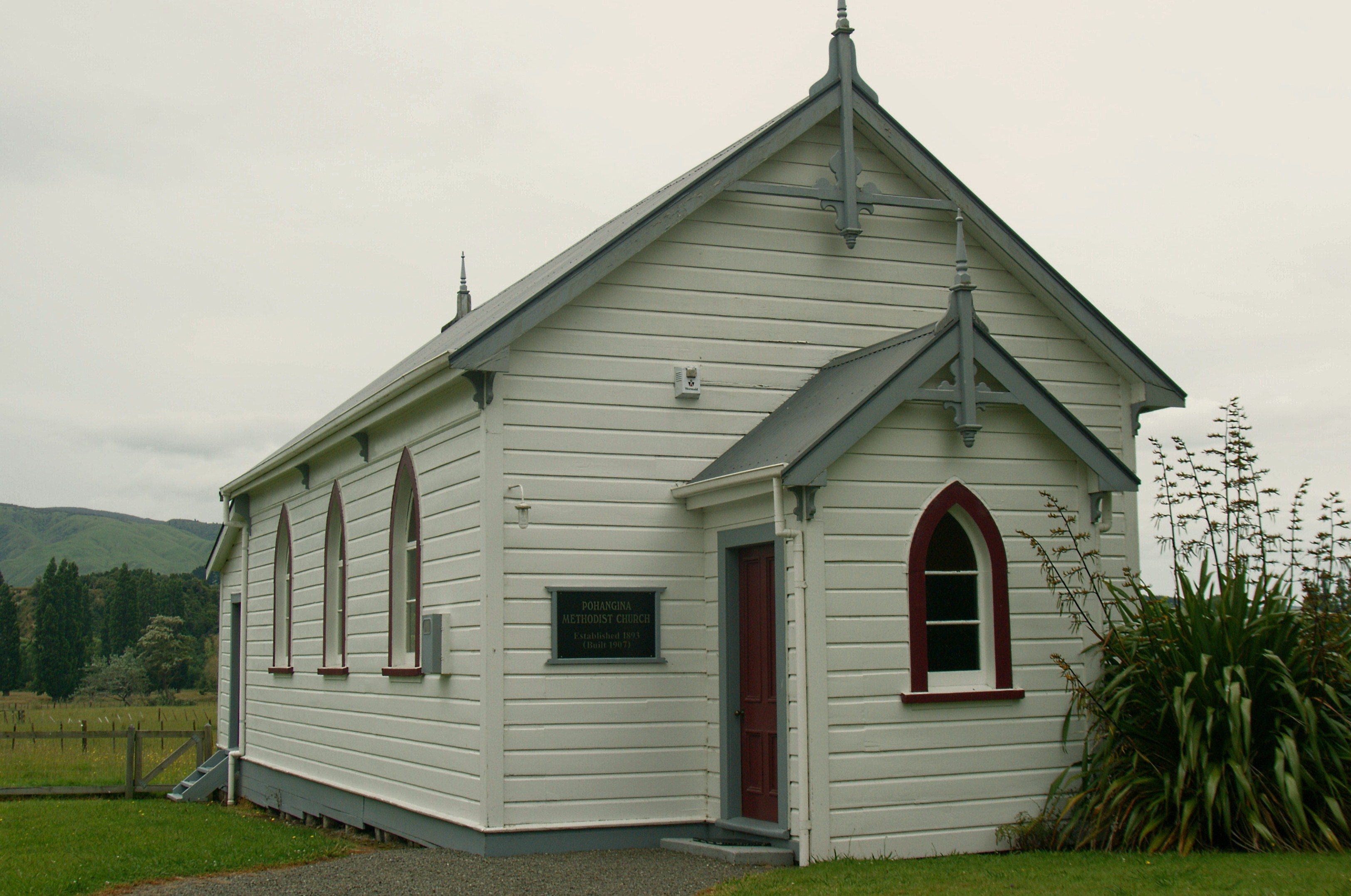 Methodist Church at Pohangina near Feilding, New Zealand